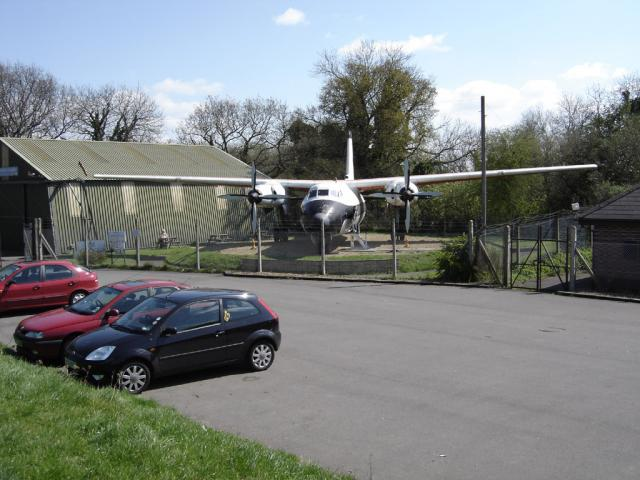 ATC Museum. How does it take off?